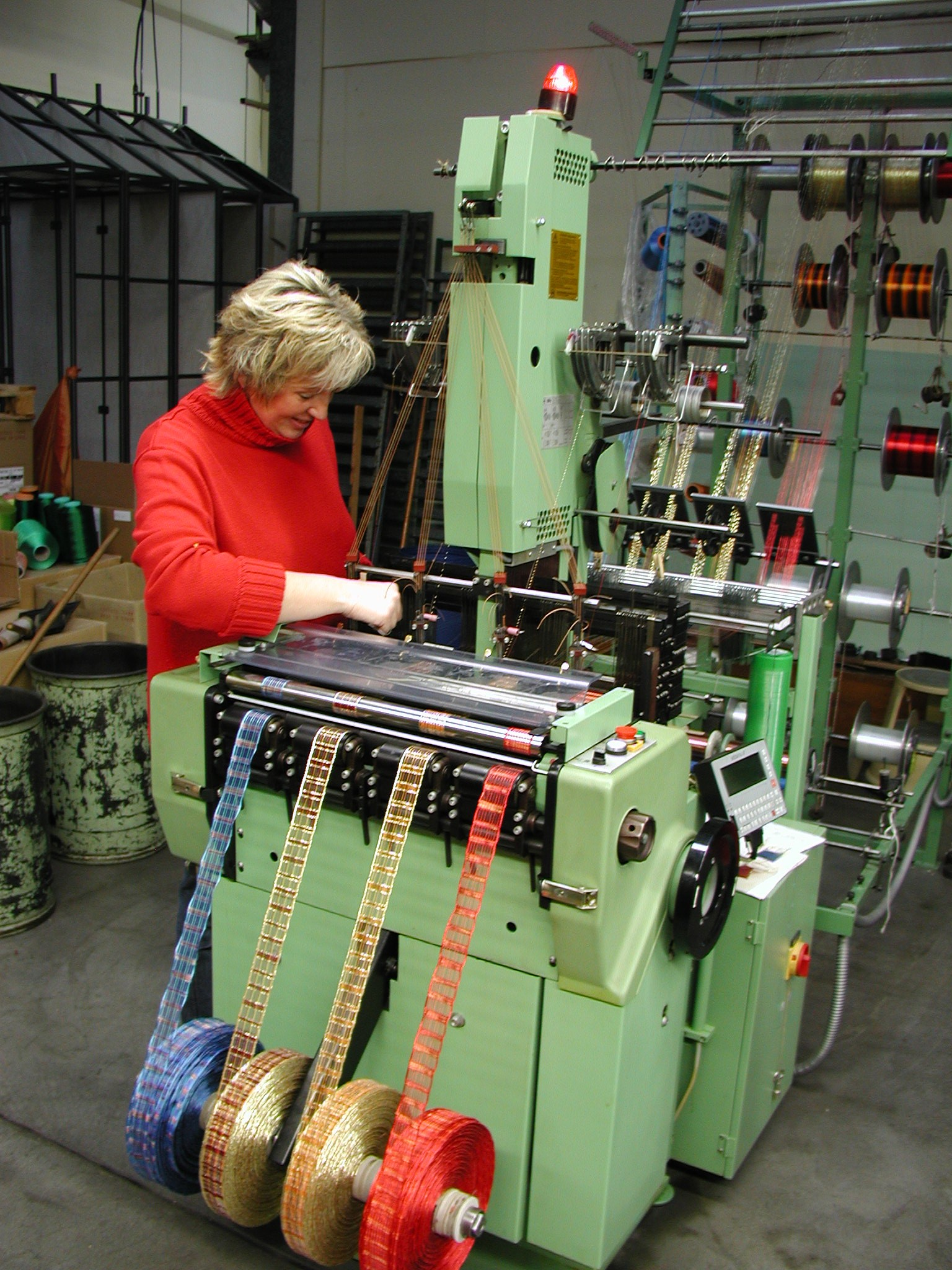 Ribbon weaving